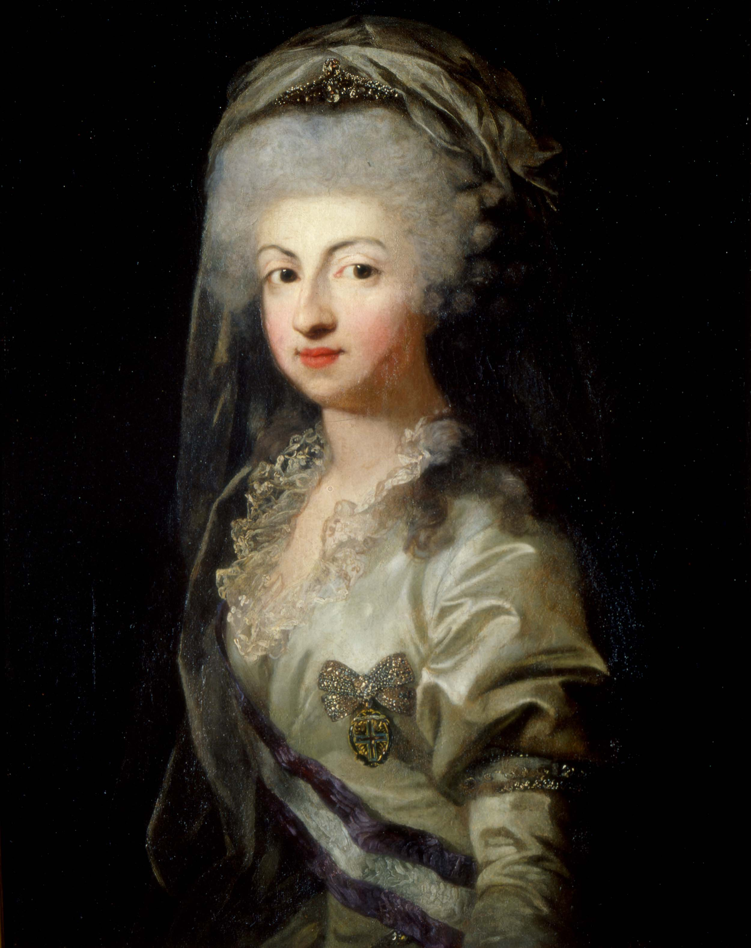 Princess Carolina of Parma (1770-1804), hereditary princess of Saxony